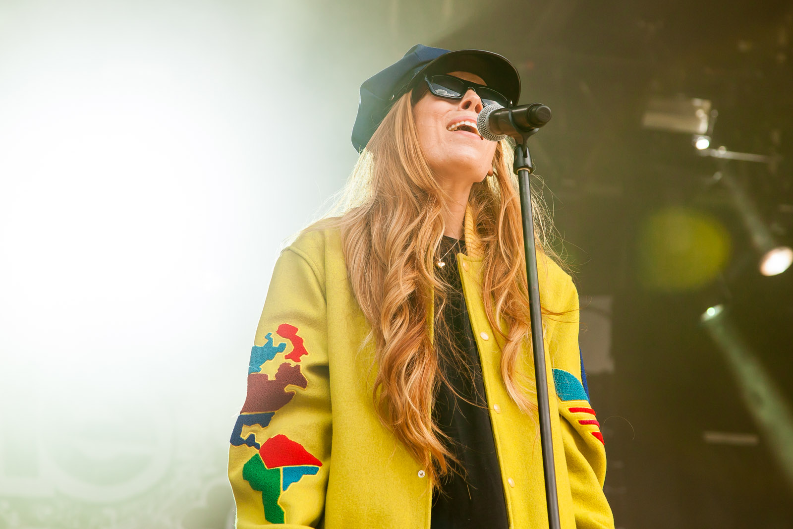 Gabrielle performing at Odderøya Live 2012